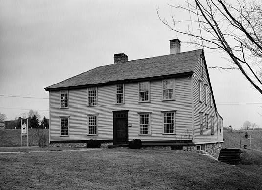 Thomas Leffingwell Inn, 348 Washington Street, Norwichtown (New London County, Connecticut) Object location41° 32′ 52″ N, 72° 05′ 33″ W